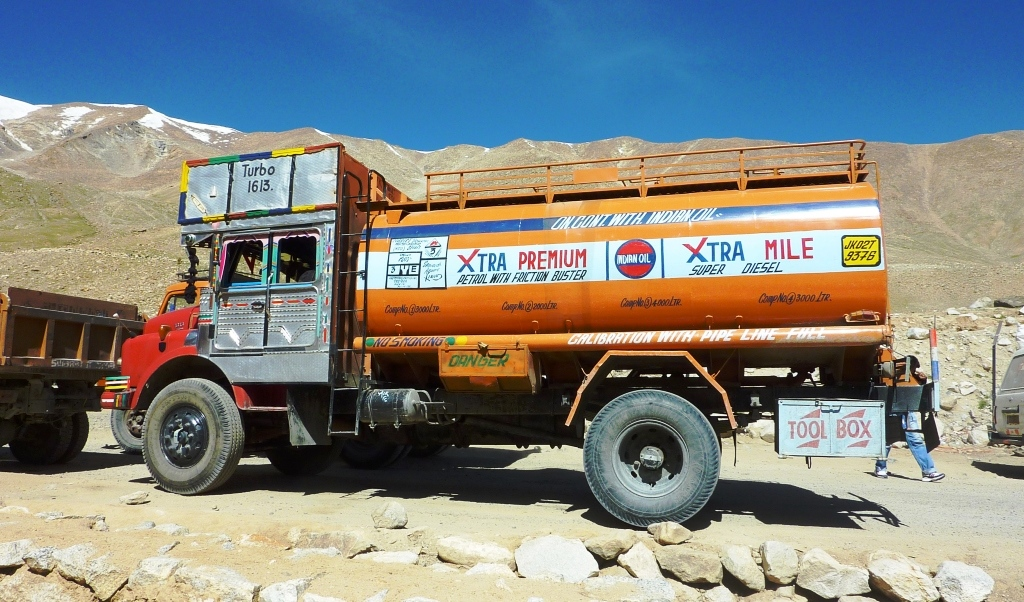 I took this photo on my way from Leh, Ladakh to the Nubra Valley in 2010